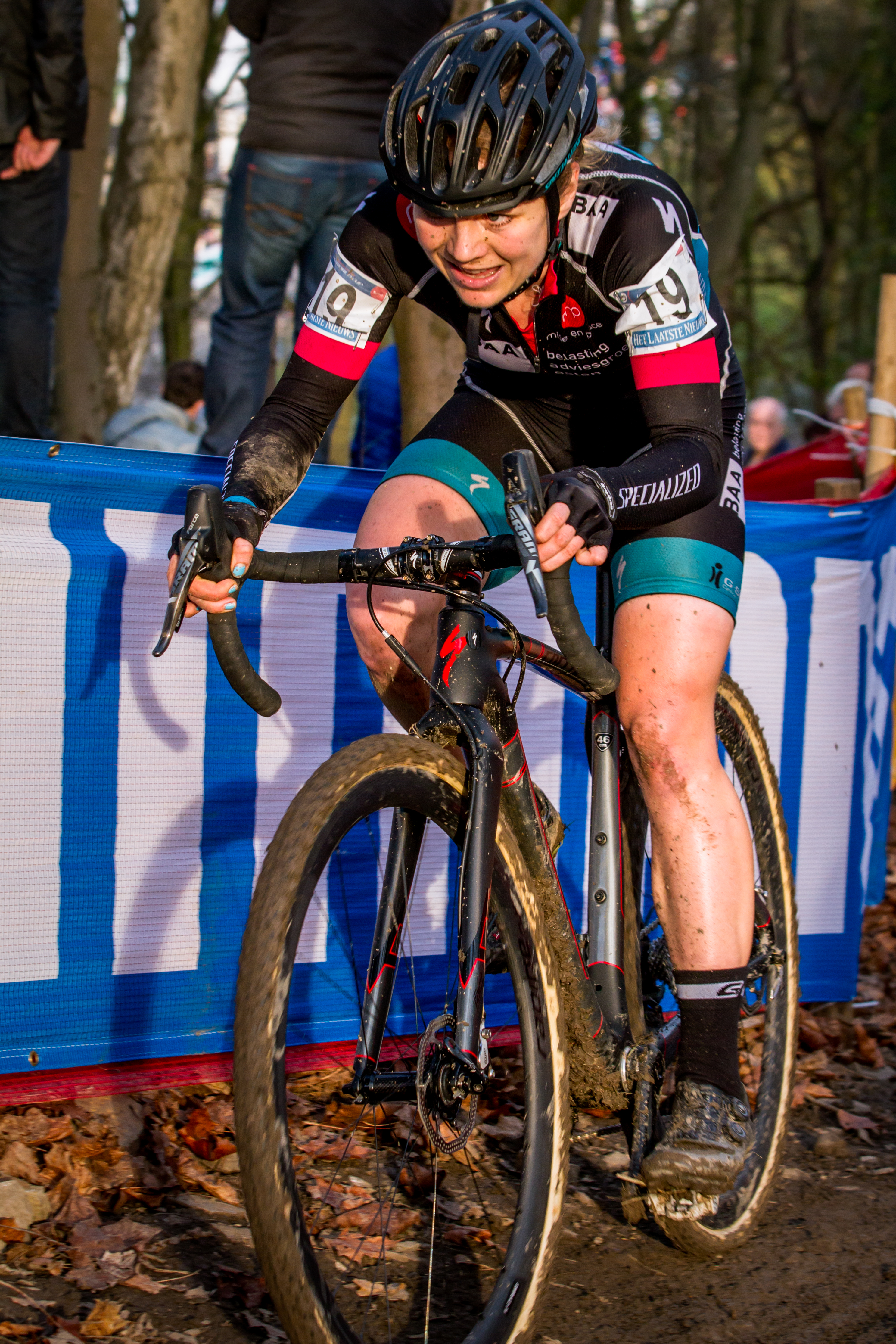 Sanne van Paassen (NLD). UCI Cyclocross World Cup, Namur, 2015.